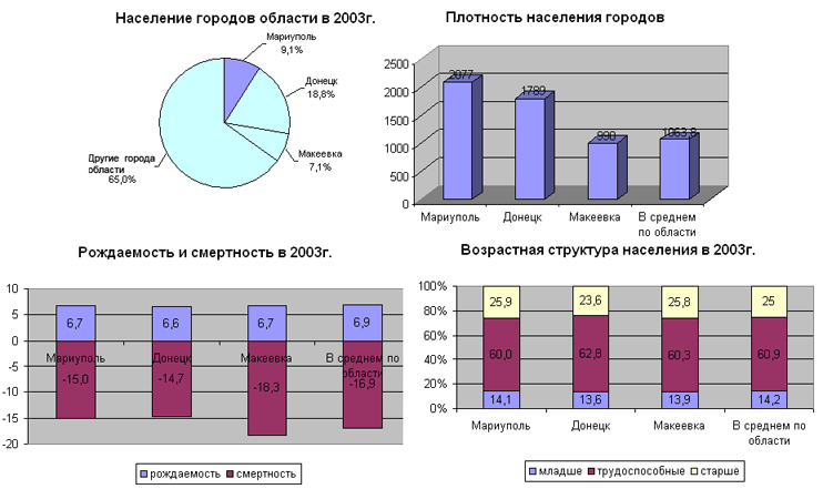 Table of Mariupol Population